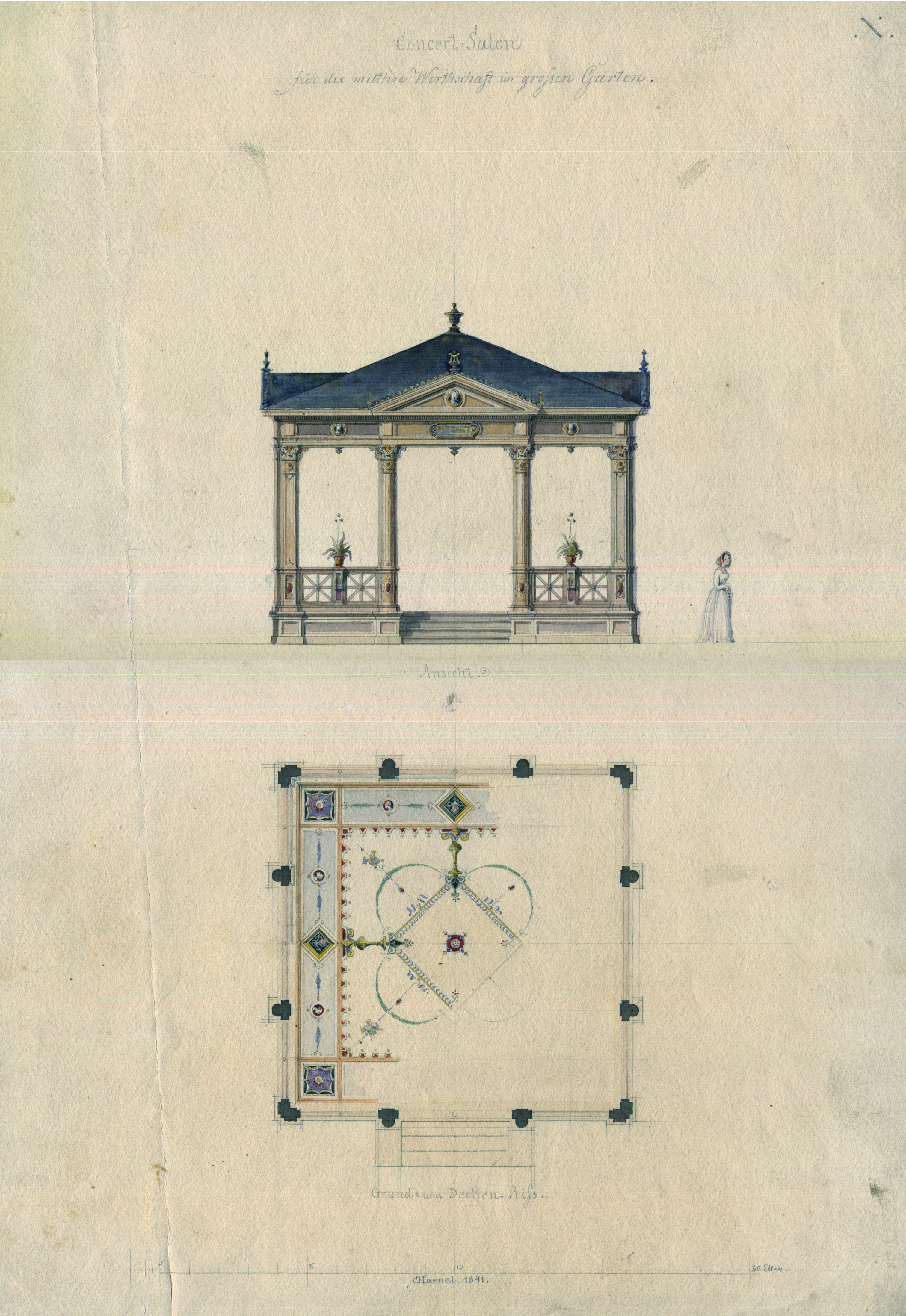 Original sketch (30 x 42 cm) for a "Concert Gazebo for the middle gastronomy in the Grand Garden" (Dresden 1841) by Karl Moritz Haenel